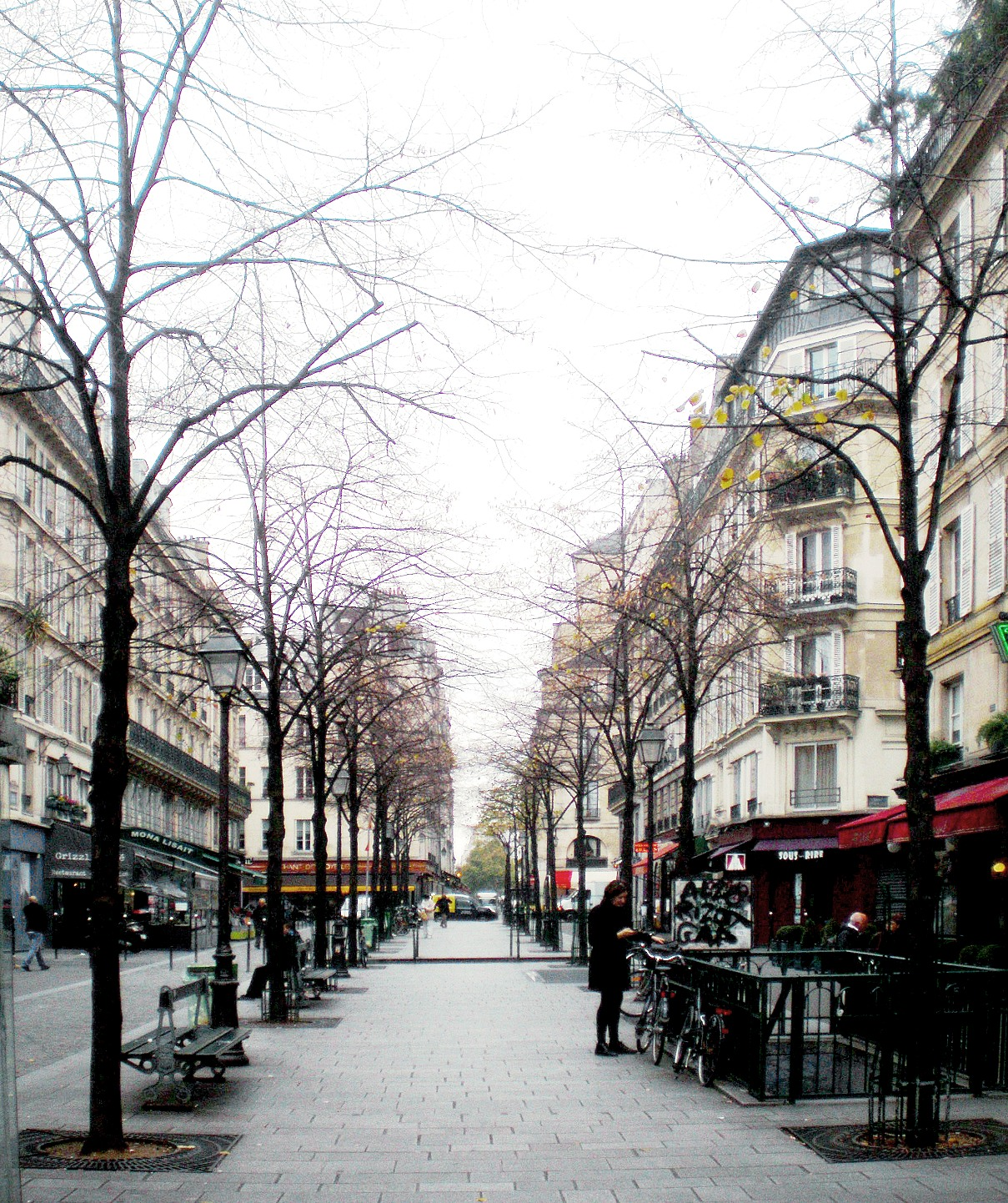 Saint-Martin - Street